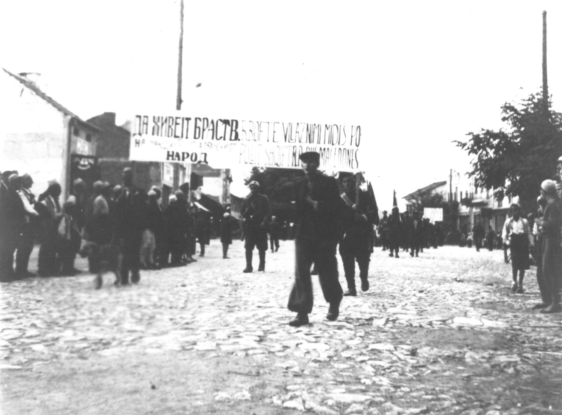 Partisans of the First Macedonian Partisans Army Battalion "Mirče Acev" in liberated Kičevo, 11 September 1943.Srpskohrvatski / српскохрватски: Partizani prvog bataljona Mirče Acev, u oslobođenom Kičevu septembra 1943. Na transparentu piše: "Da živi bratstvo makedonskog i albanskog naroda."